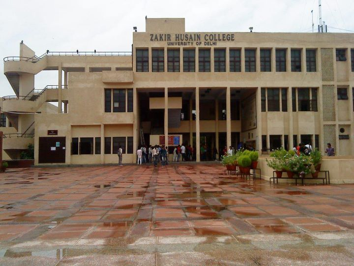 Front view of Zakir Husain College, Delhi.